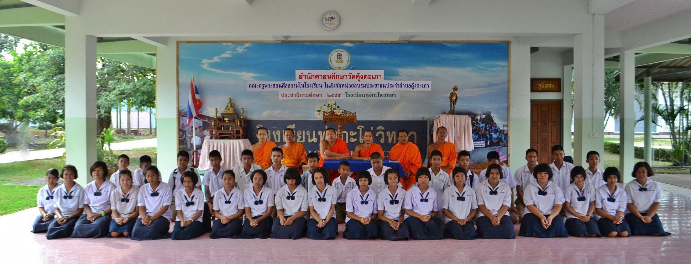 student in Thung Kalo Witthaya School , Mueang Uttaradit, Uttaradit Province, Thailand.